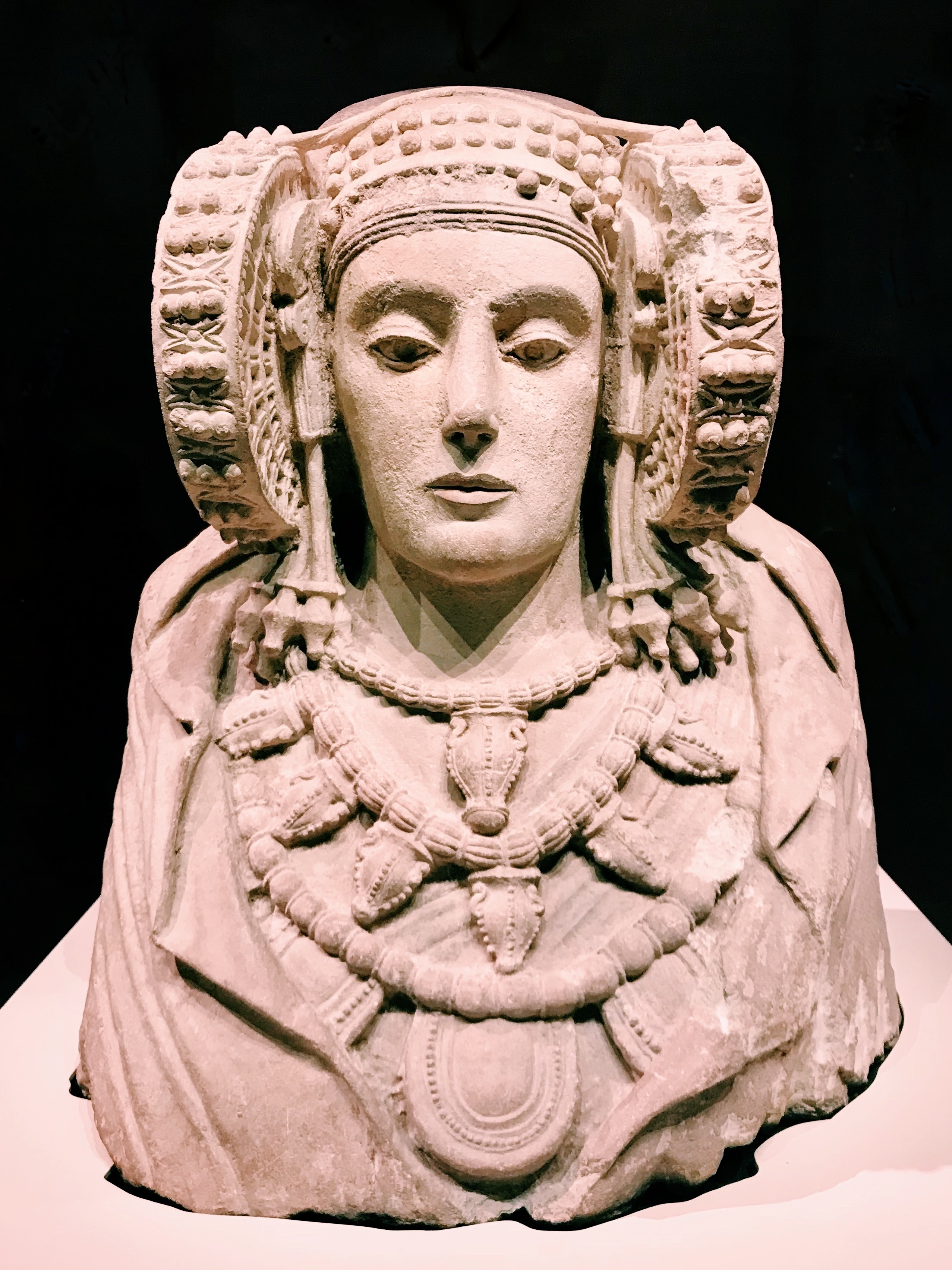 Processed with VSCO with c1 preset